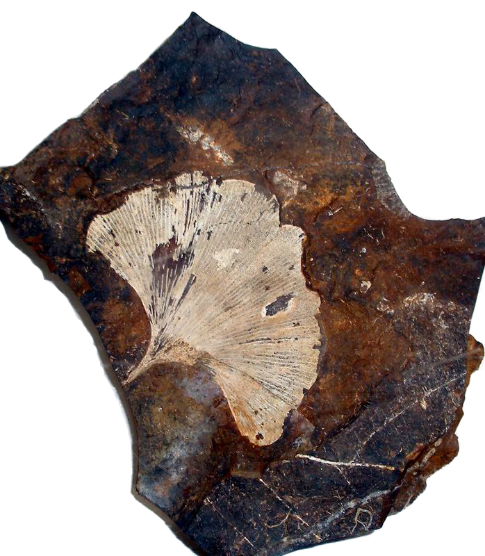 Fossil Ginkgo leaf. Not much has changed over the ~60 million years since the fossil formed.